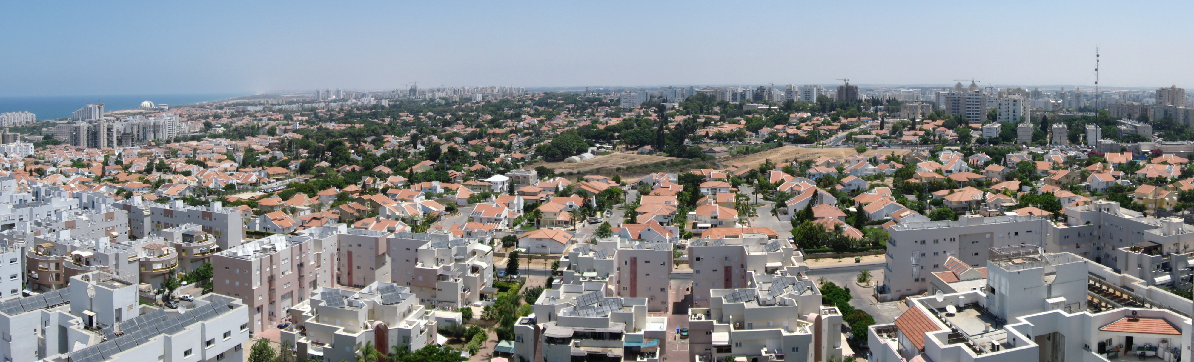 Panoramic photo I of Ashkelon, Israel. Captured in the "Ashkelon City" neighbourhood.